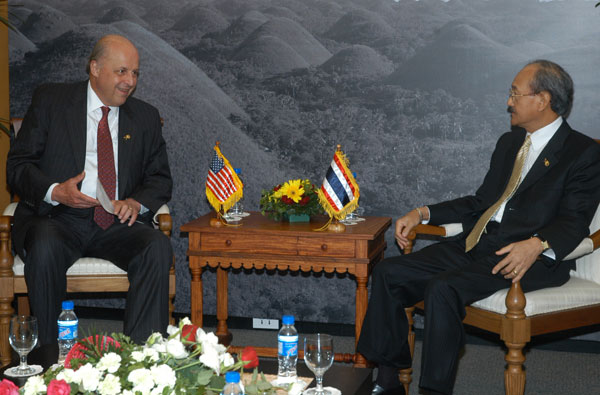 John Negroponte and Nitya Pibulsonggram.